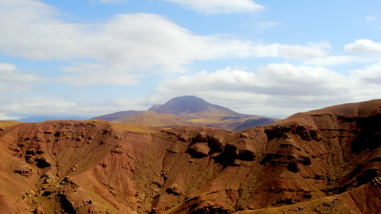 Mount Own ibn Ali